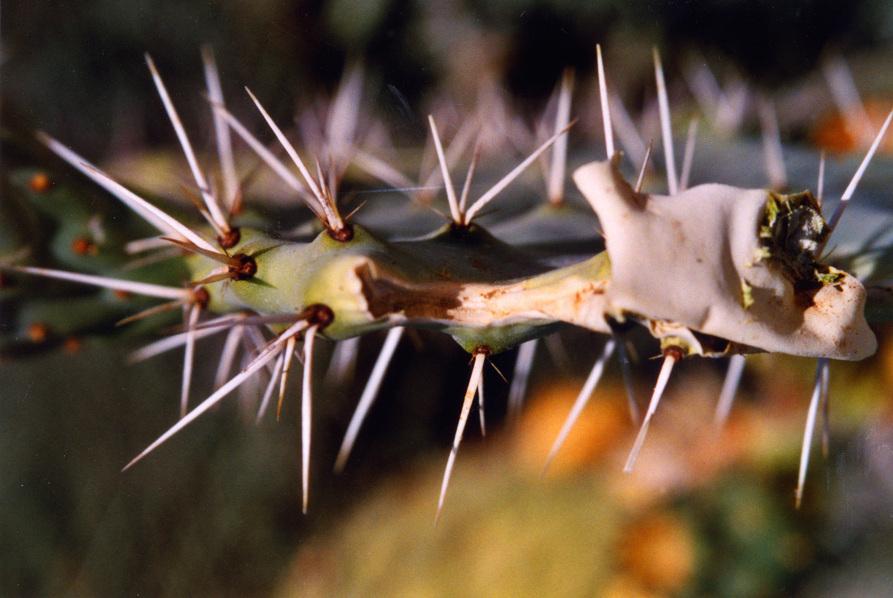 Thorns. Taken by Pixie (username en, he, de Wikis)